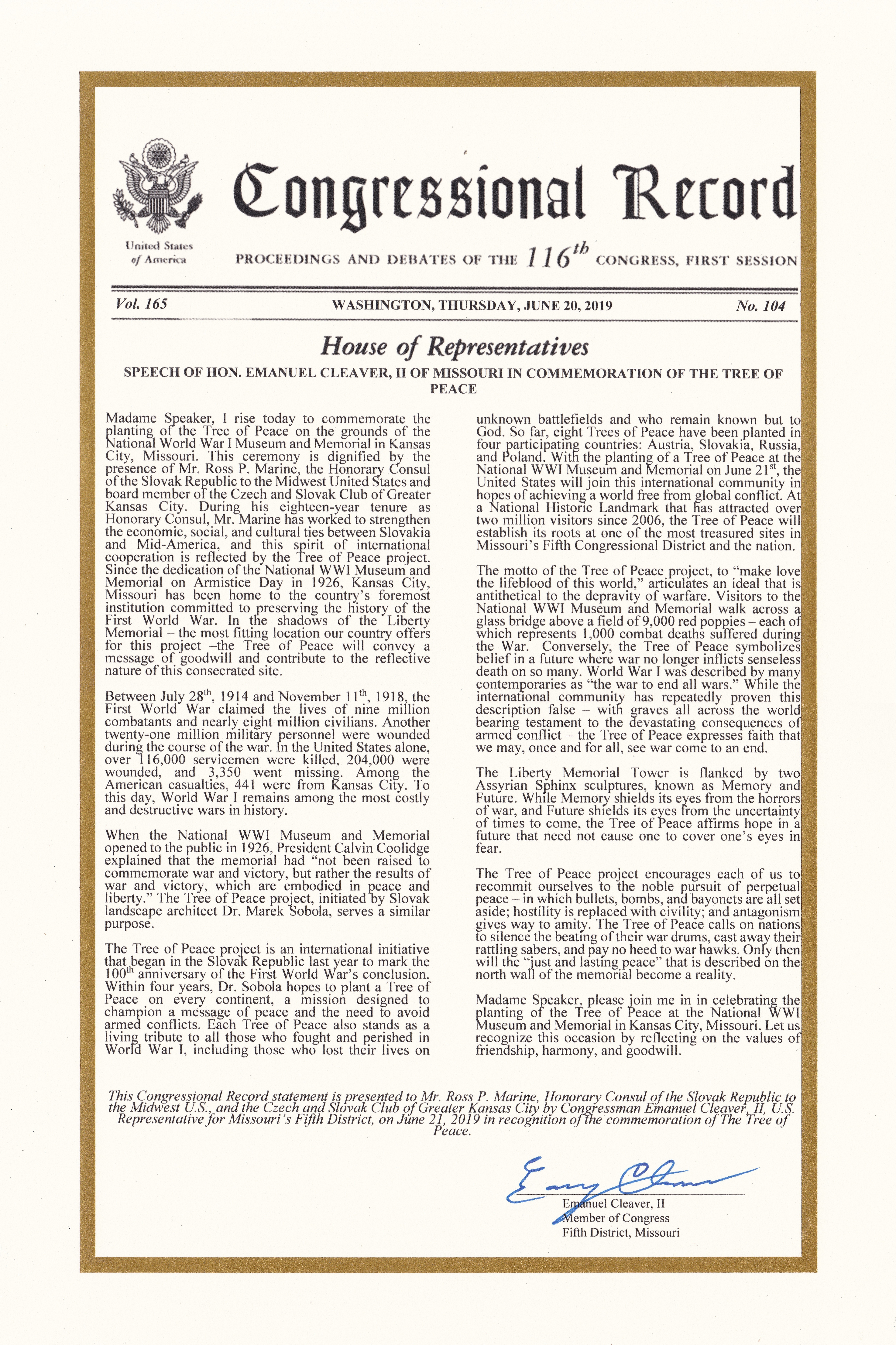 Congressional Record, Speech of Hon. Emanuel Cleaver, II of Missouri in Commemoration of the Tree of Peace